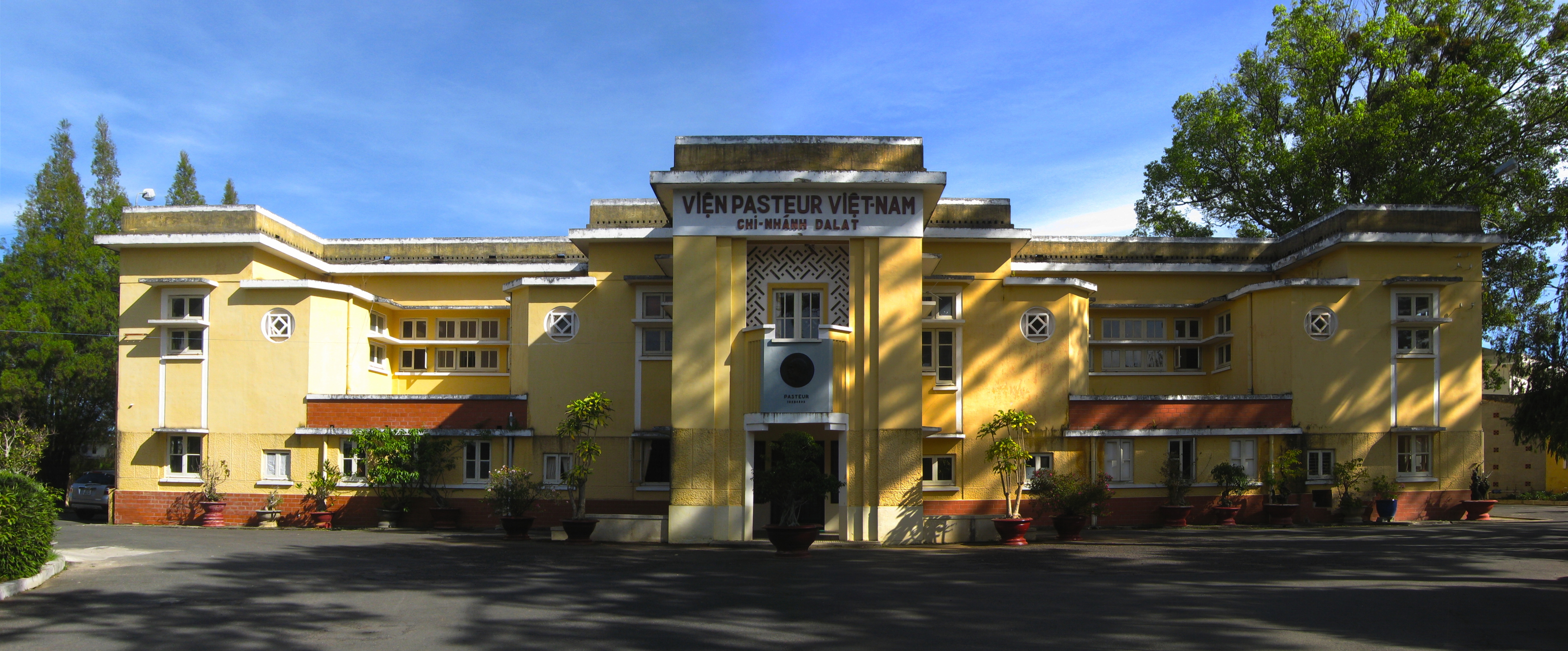 Vien Pasteur, chup panorama